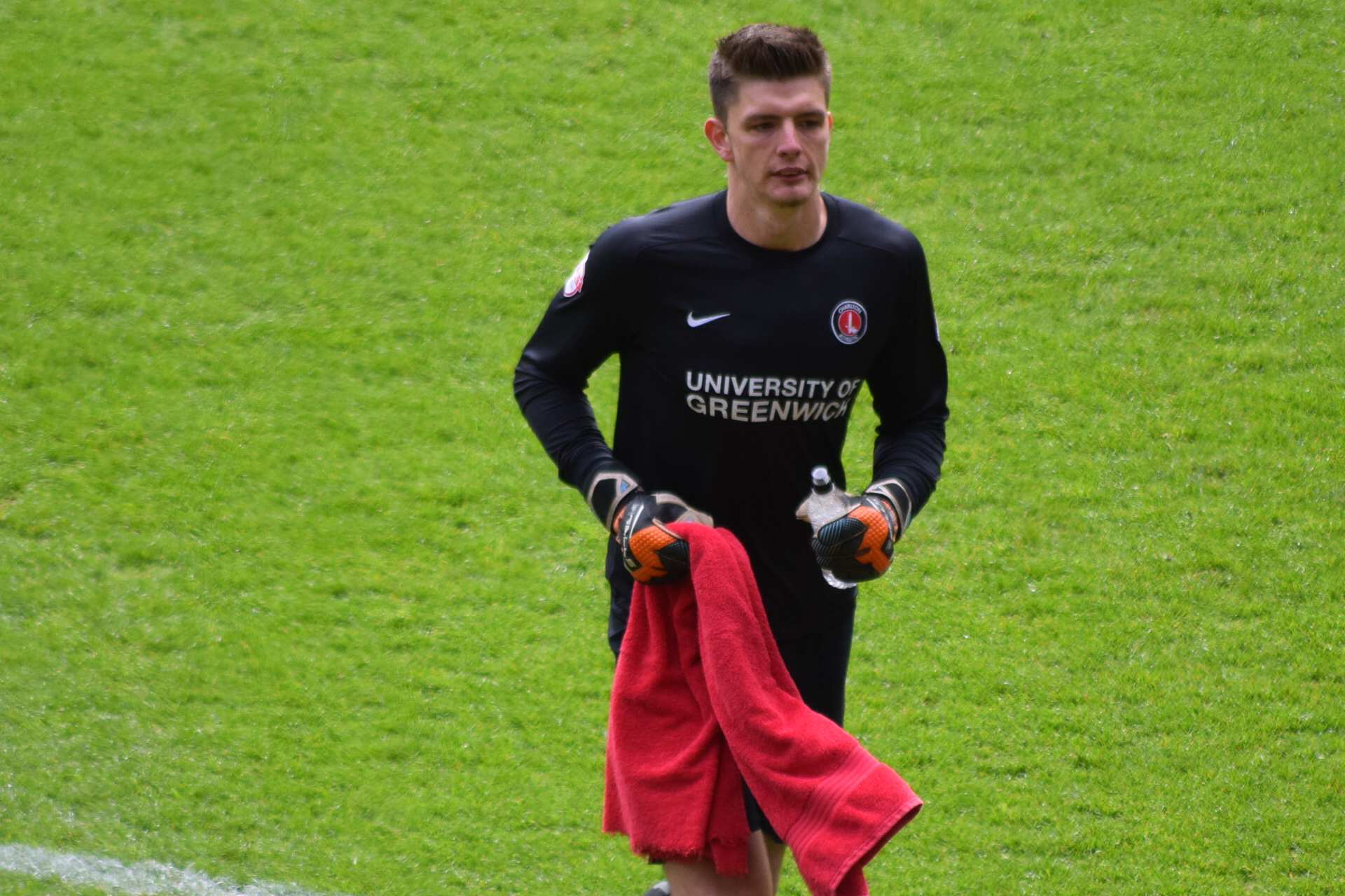 Nick Pope